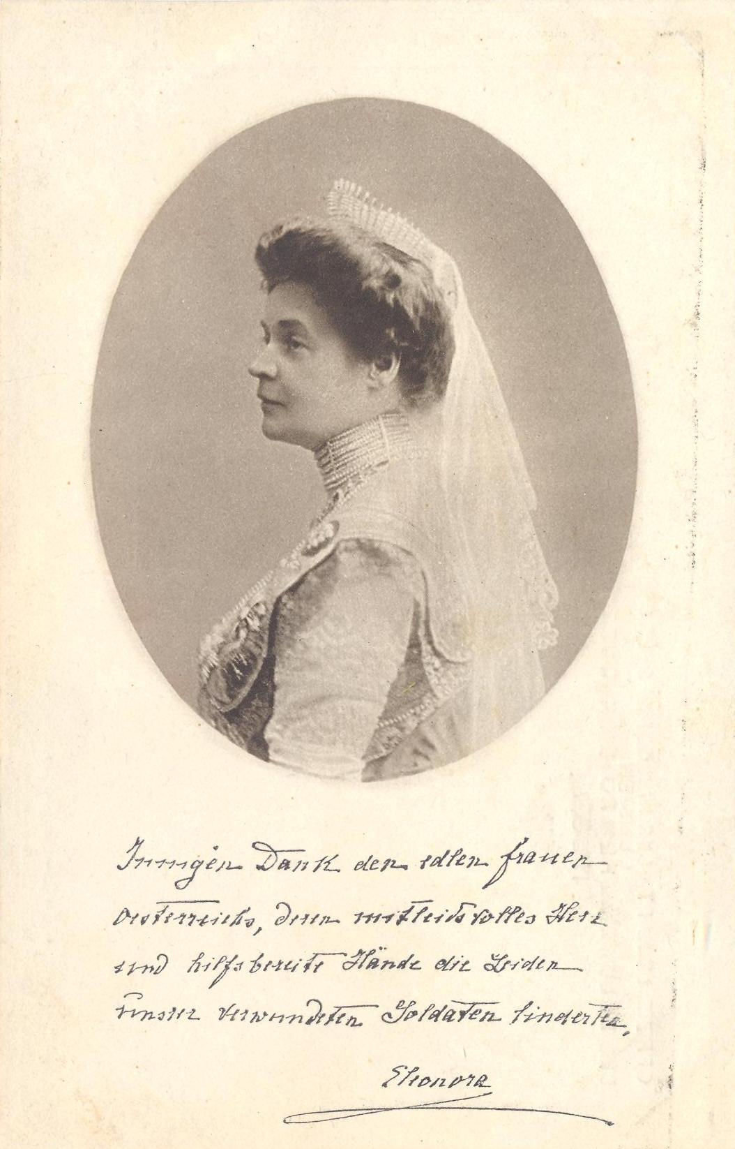 Postcard with Eleonore Reuss of Köstritz.